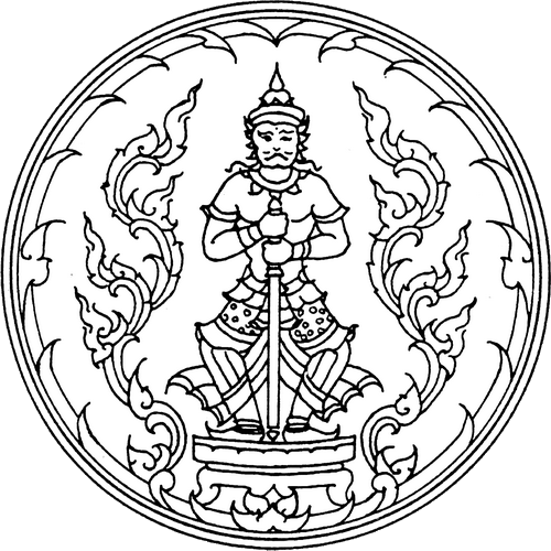 Provincial seal of Udon Thani province.